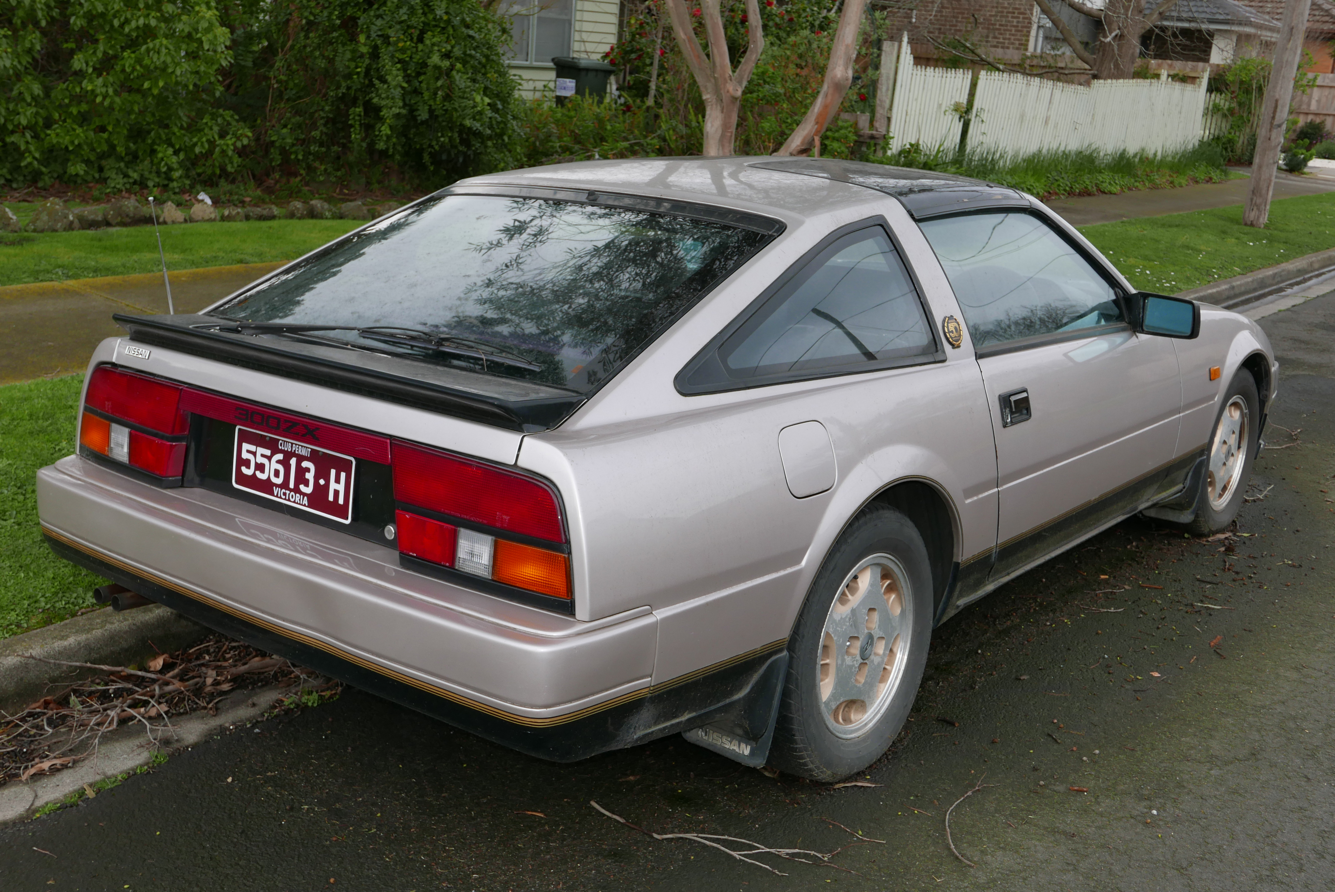 1984 Nissan 300ZX (Z31) 50th Anniversary hatchback. Photographed in Blackburn North, Victoria, Australia.